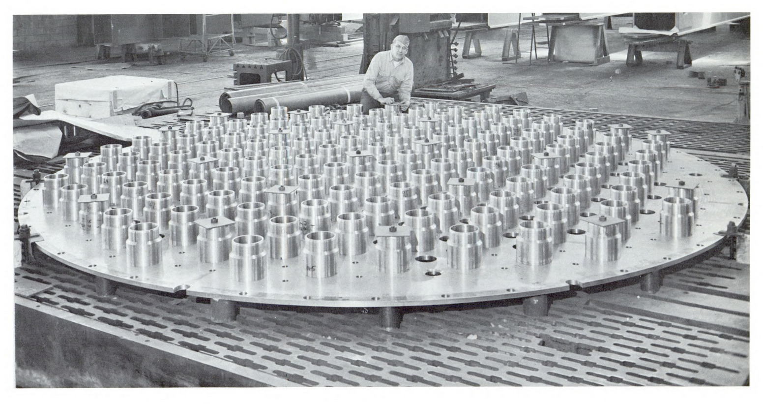 This is the view of the Hallam nuclear power facility under construction. This reactor was a sodium graphite reactor built in the early 1960s in Nebraska, USA.